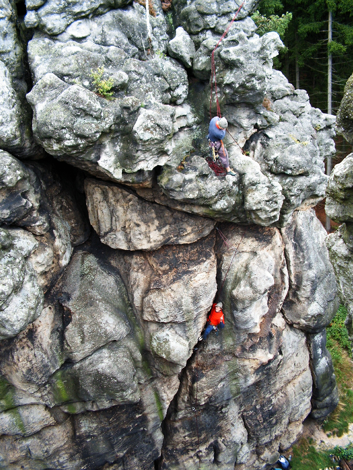 Climbers in the Lusatian Mountains